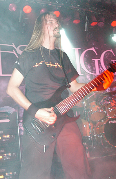 Fredrik Thordendal playing at the Meshuggah gig at Mondo, Stockholm, Sweden on the 20th of May, 2005.